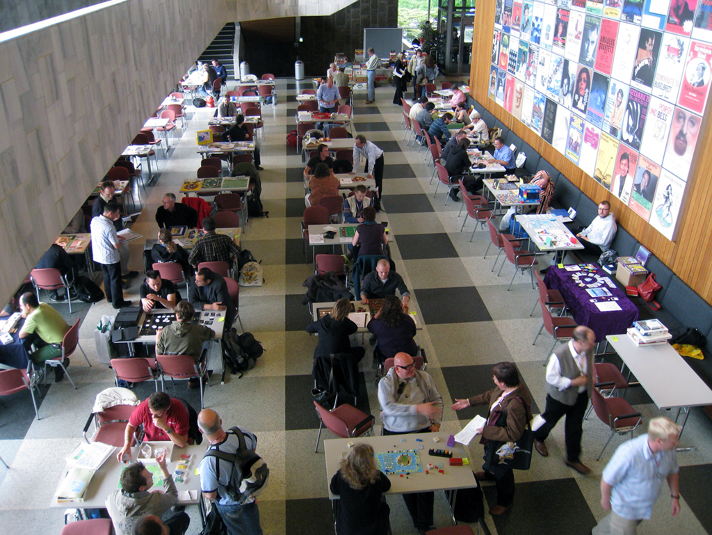 28th Game Designer Convention 2009 in Göttingen.